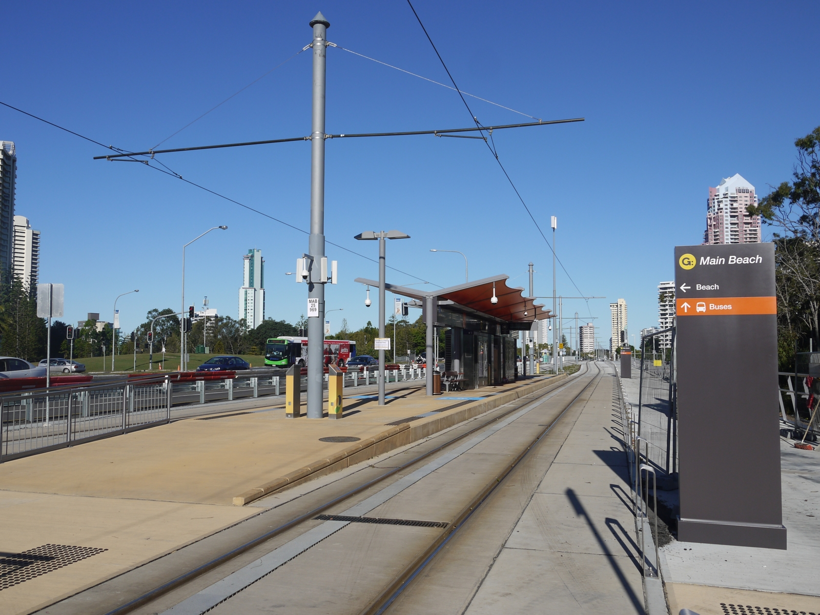 Gold Coast Light Rail - Main Beach Station